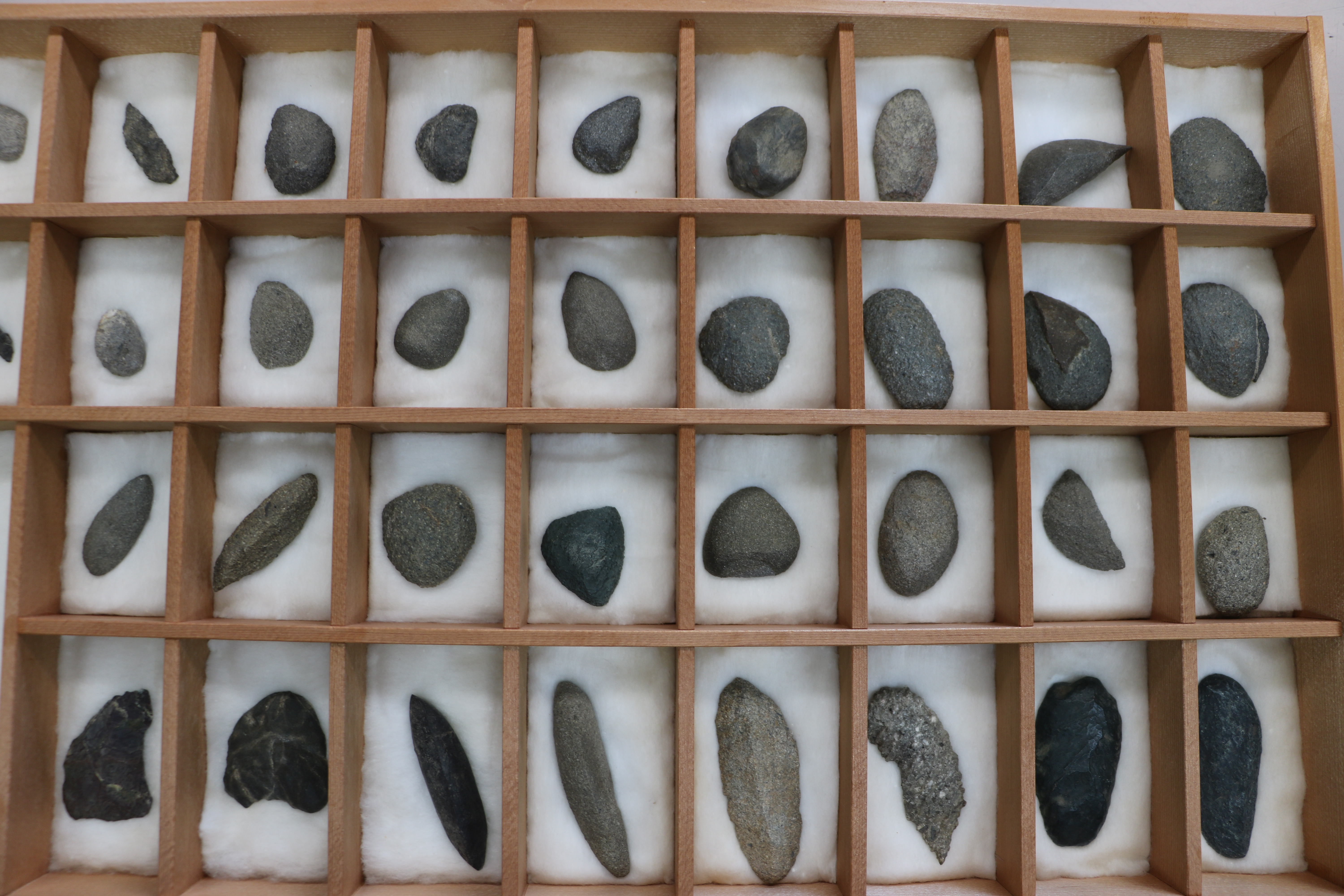 Shirowa district Dreikanter and Ventifacts production area wind erosion stone specimens collected in December 1940